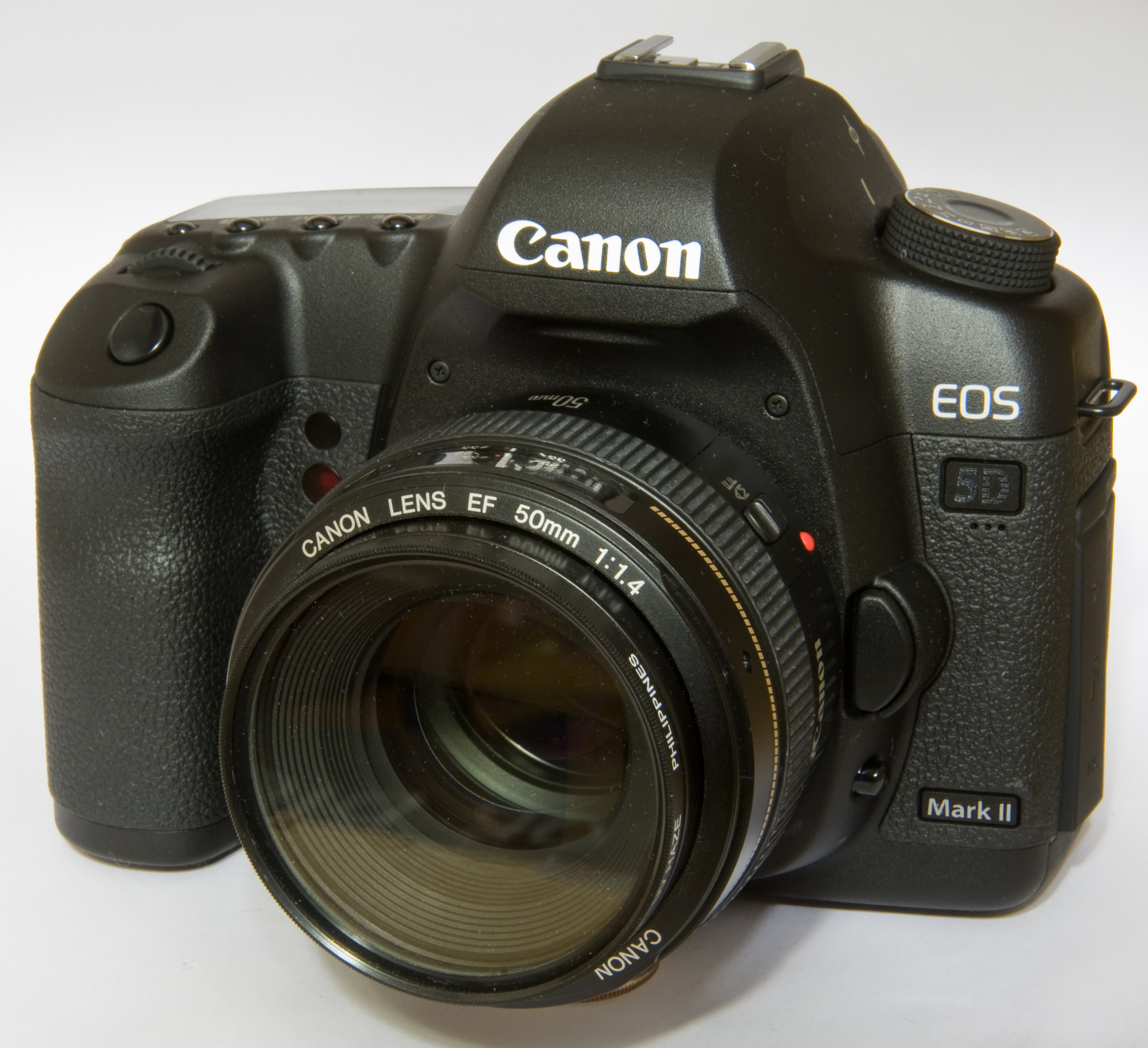 The Canon EOS 5D Mark II with a 50mm f/1.4 lens.